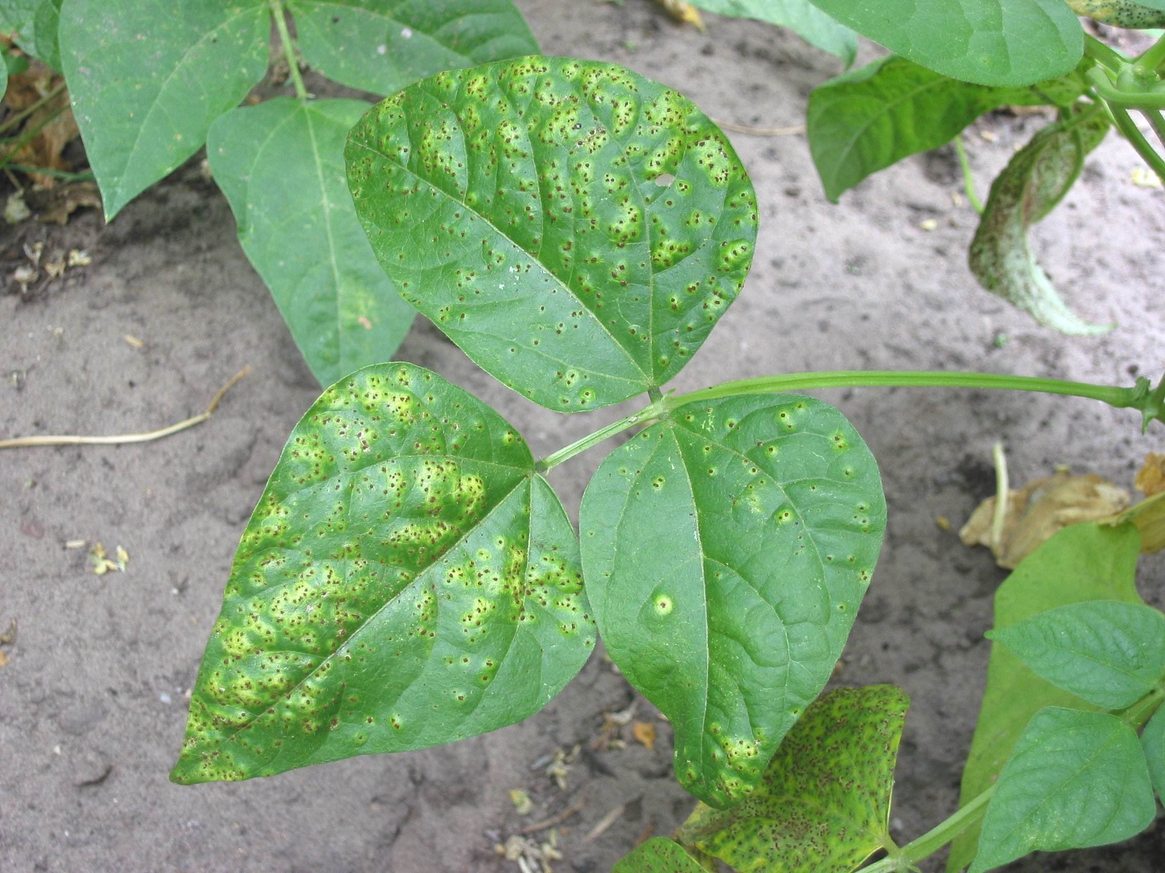 Uromyces appendiculatus var appendiculatus of Phaseolus vulgaris